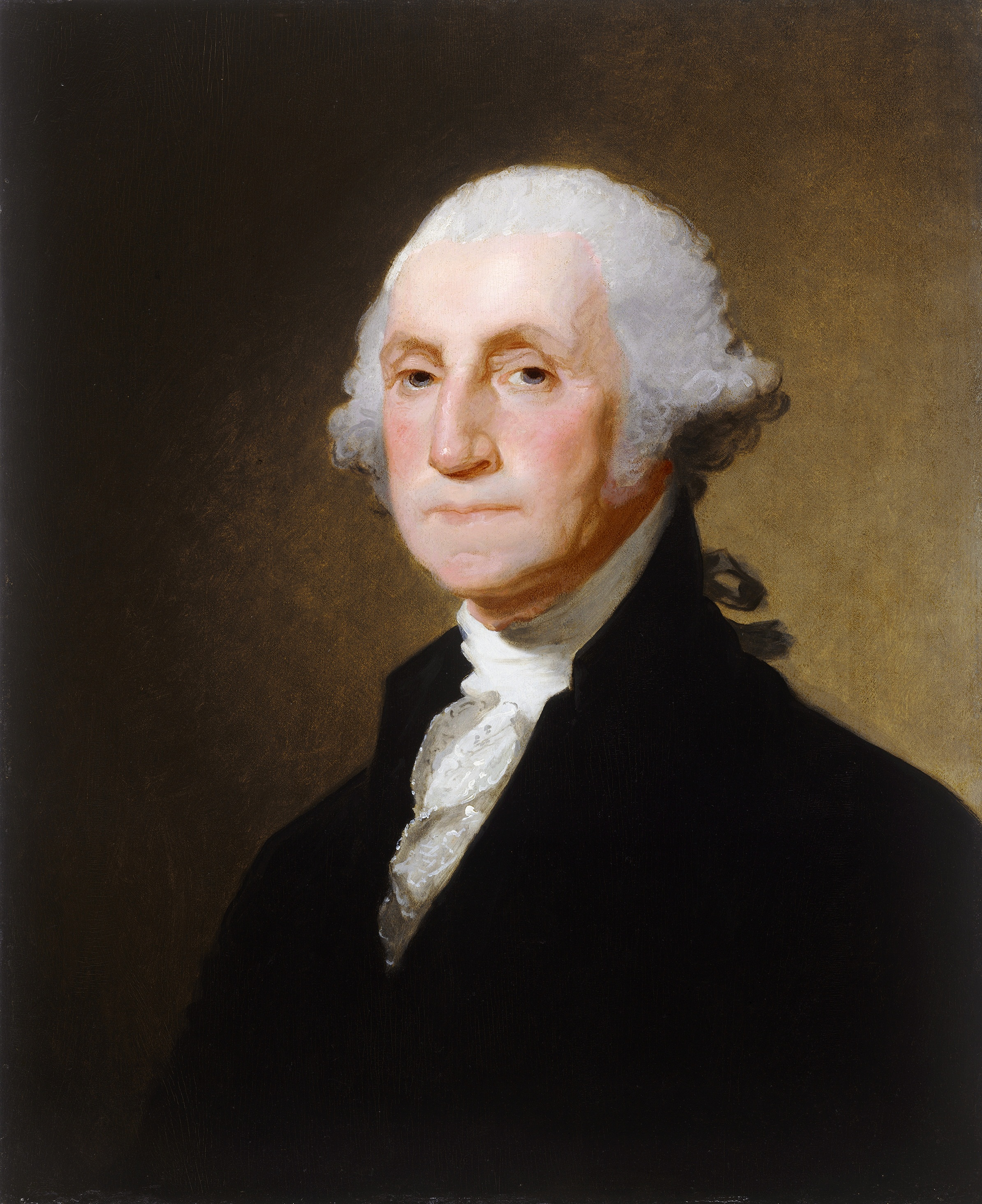 Stuart painted five presidents -- George Washington, John Adams, Thomas Jefferson, James Madison, and James Monroe -- as part of a set commissioned by Colonel George Gibbs of Rhode Island. These were some of the last paintings in Stuart's career. Much later, the Gibbs family sold the set to Thomas Jefferson Coolidge, an ancestor of President Calvin Coolidge. The Coolidge family sold the five portraits (known as the Gibbs-Coolidge Collection) to the National Gallery of Art in April 1979.